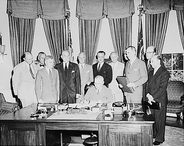 U.S. President Harry Truman signs the bill ratifying the North Atlantic Treaty, part of creating the North Atlantic Treaty Organization (NATO)